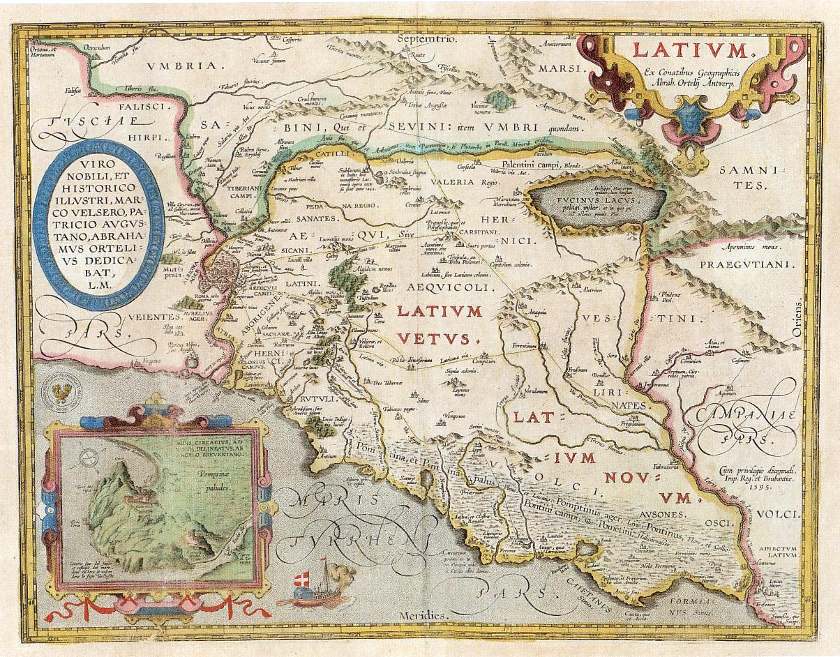 Abraham Oertel, "Latium" from "Theatri orbis terrarum parergon", Anversa 1595